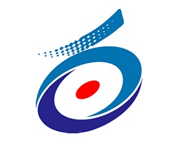 Flag of Shirakwa Fukushima